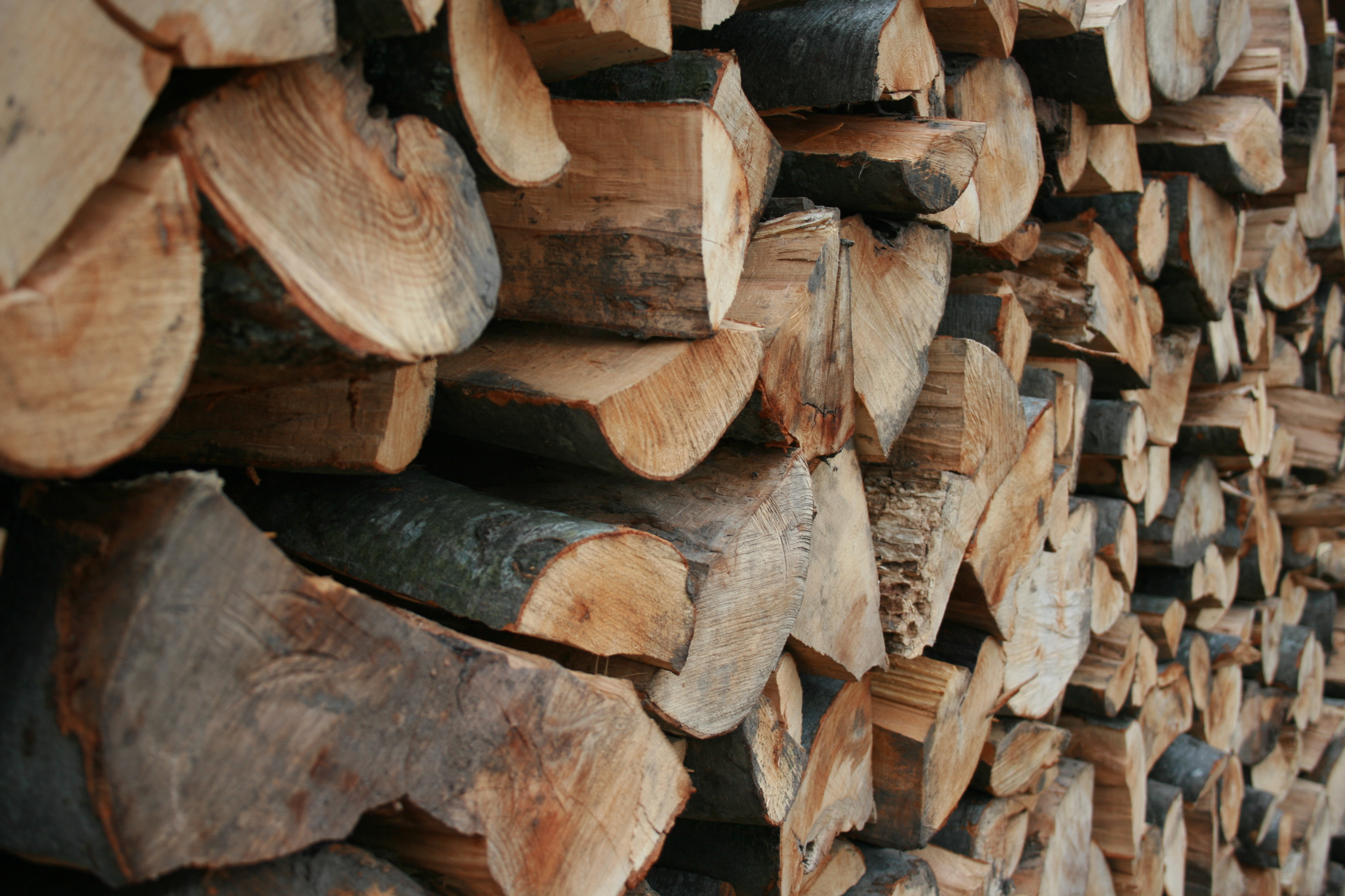 Firewood stacked up to promote drying.